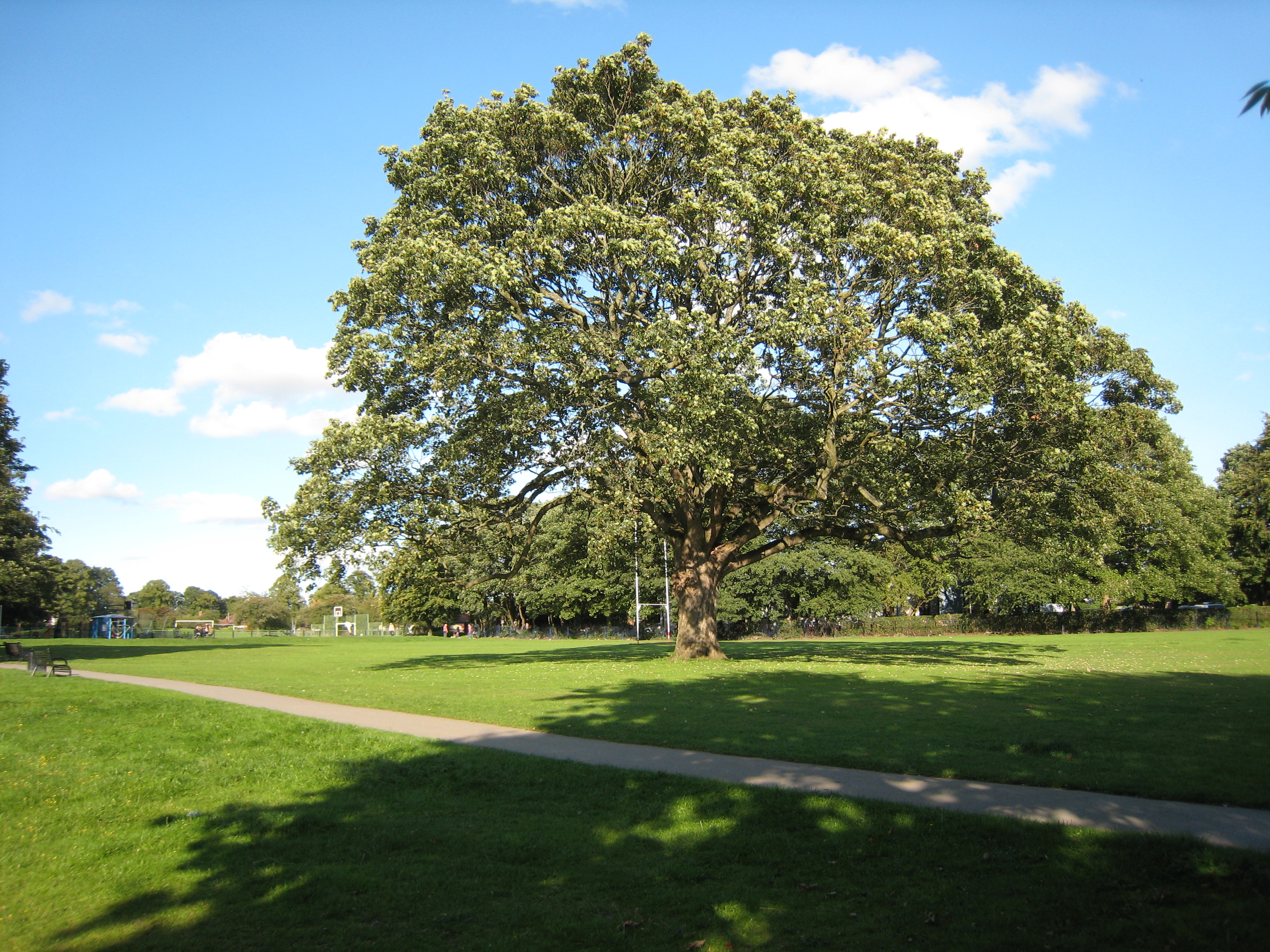 Manston Park, Leeds. A large tree in Summer, with a rugby pitch and children's playground behind.